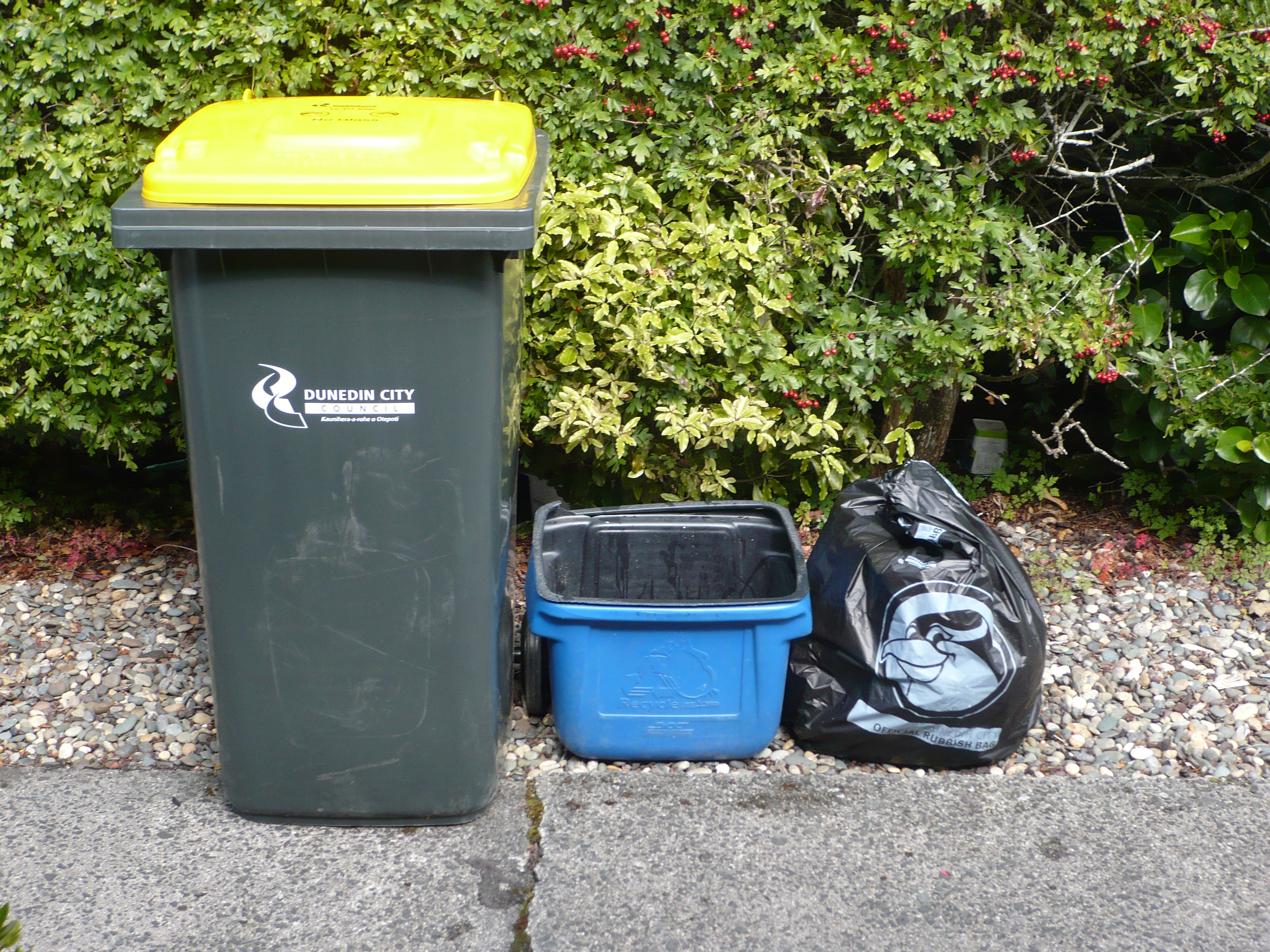 Kerbside collection recycling bins and rubbish bags for the Dunedin City Council in New Zealand, in March 2011. The yellow-lidded 240-litre wheelie bin (left) is for plastic bottles and containers 1-7, steel and aluminium cans, paper and cardboard. The blue 45-litre bin (centre) is for glass bottles and jars. The yellow-lidded wheelie bin and the blue bin are put out for collection on alternating weeks. Recycling collection is "free" as it is paid through the householder's rates bill and remuneration from the recyclables collected. Non-recyclable household waste is collected in official council plastic rubbish bags (right), collected weekly. Rubbish collection is user-pays, with the collection charges incorporated into the purchase price of the bag.